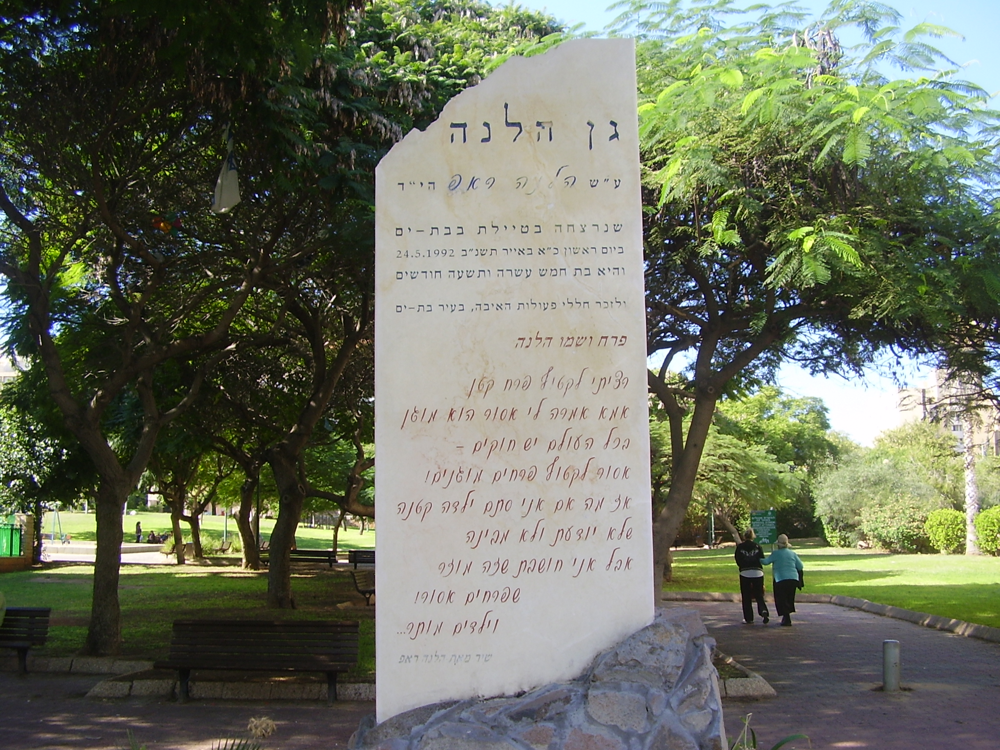 helena rapp memorial garden in bat yam. she was killed by an arab terrorist in 24/5/1992, age 16 גן ע"ש הלנה ראפ בבת ים